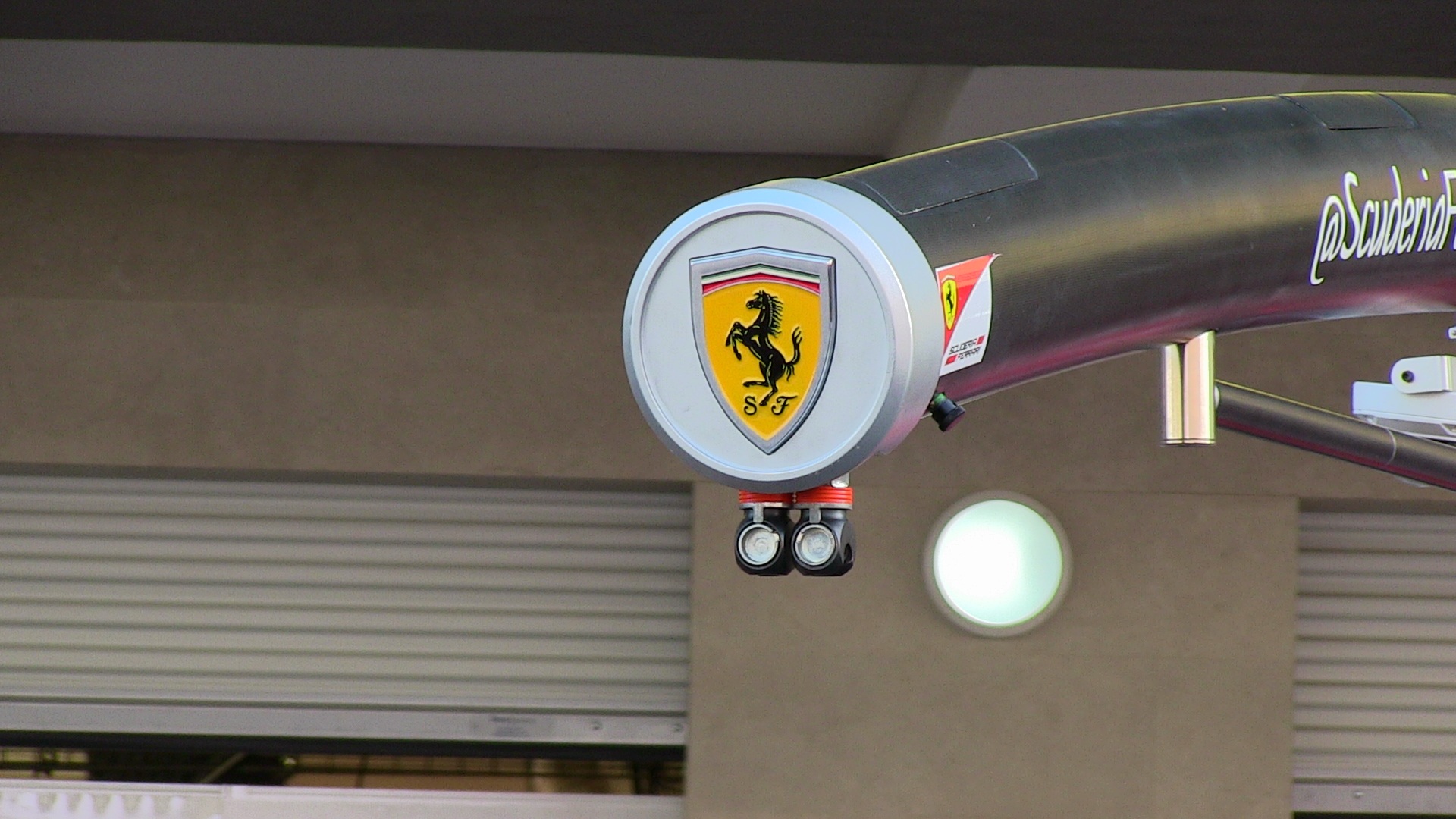 PitWalk Mexican Grand Prix 2015, Autódromo Hermanos Rodríguez. Mexico City, Mexico.